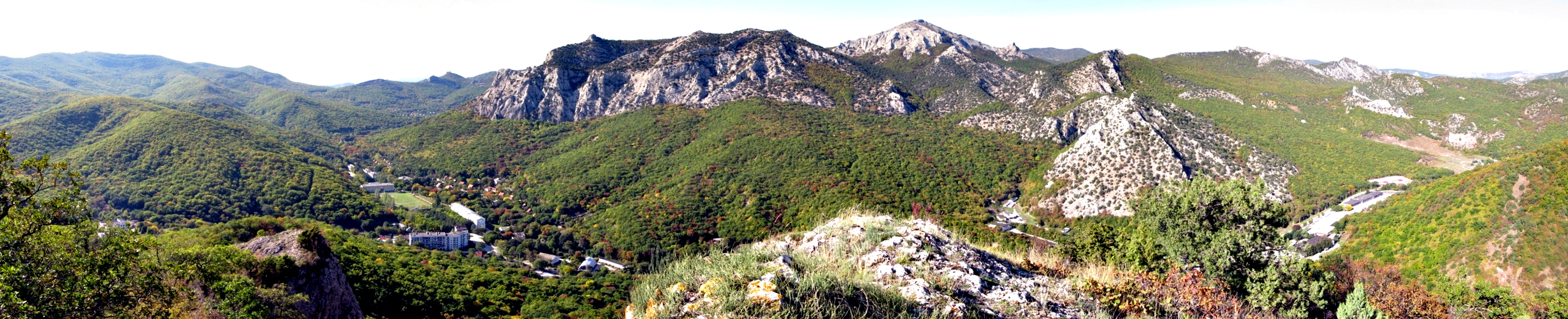 Kyzyl-Tash. Crimea. Ukraine.